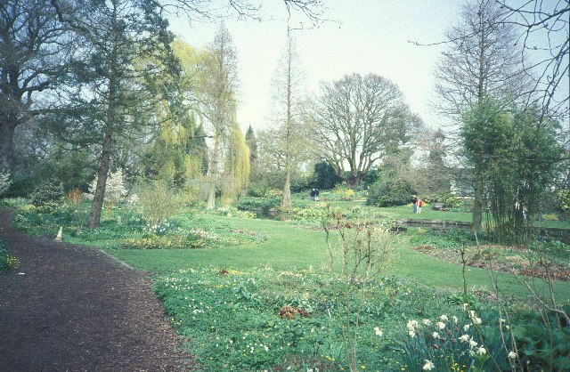 The Beth Chatto Gardens.